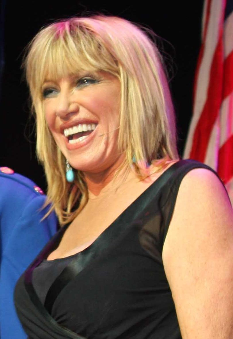 Cropped version of Image:Suzanne Somers USO 1.jpg